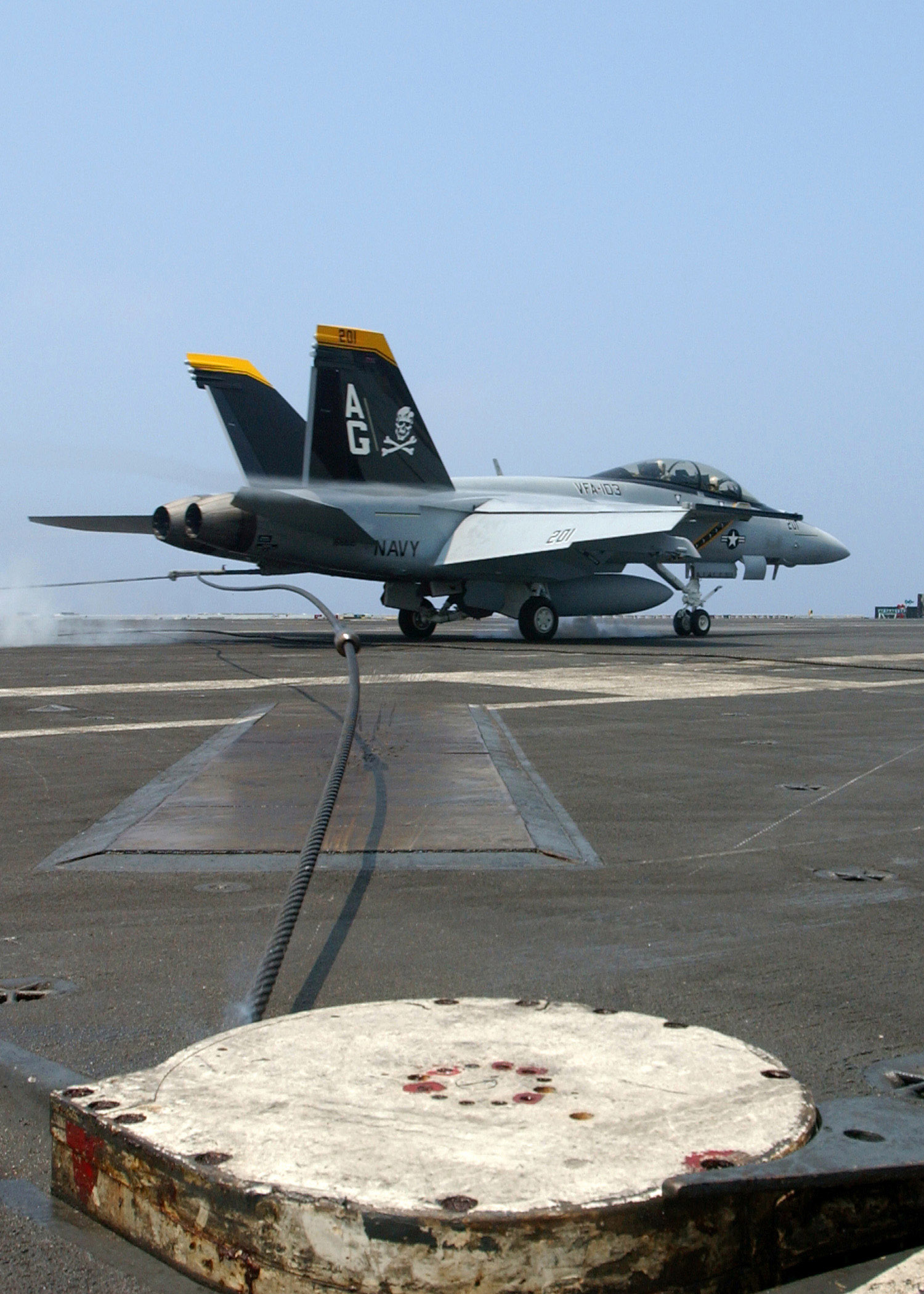 Atlantic Ocean (July 28, 2005) - A F/A-18F Super Hornet assigned to the "Jolly Rogers" of Strike Fighter Squadron One Zero Three (VFA-103) conducts an arrested recovery aboard the Nimitz-class aircraft carrier USS Harry S. Truman (CVN 75). Truman is currently conducting carrier qualifications and sustainment operations off of the East Coast. U.S. Navy photo by Photographer's Mate 3rd Class Kristopher Wilson (RELEASED)